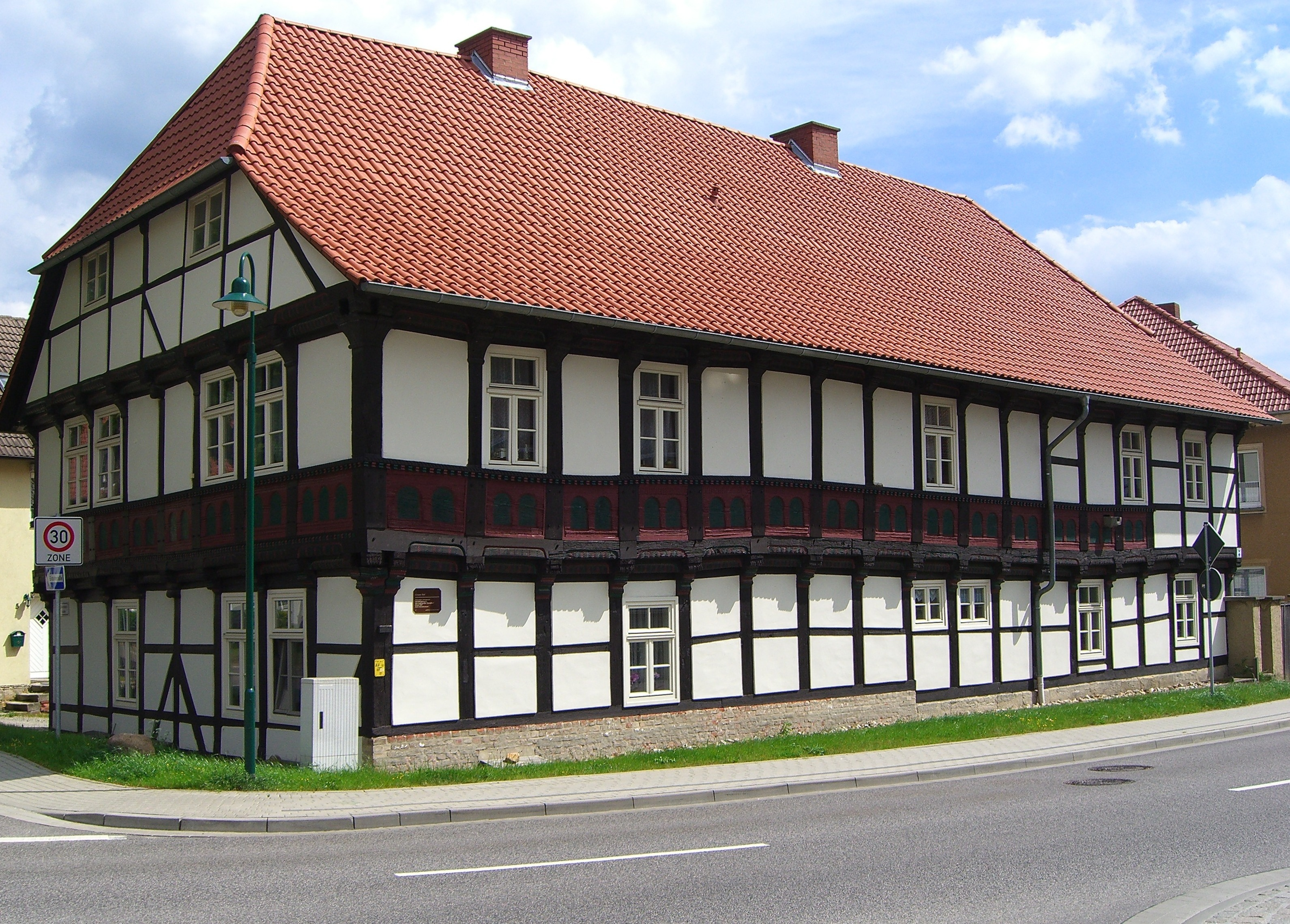 "Grauer Hof" in Harbke. Built in 1601. Former district court, now museum of local history.